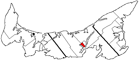 Adapted from existing Prince Edward Island election results maps to depict a specific electoral district.